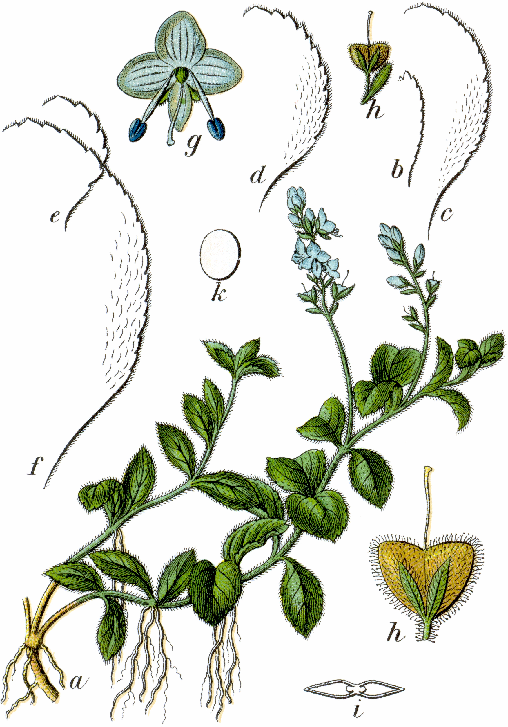 Veronica officinalis L. Original Description Echter Ehrenpreis, Veronica officinalis; Pl. 40: a) Plant, scaled down; b to f margins of the leaves in natural size; g) flower, scaled up.; h) fruit with bract in natural size and scaled up f) intersection of fruit; k) seed, scaled up